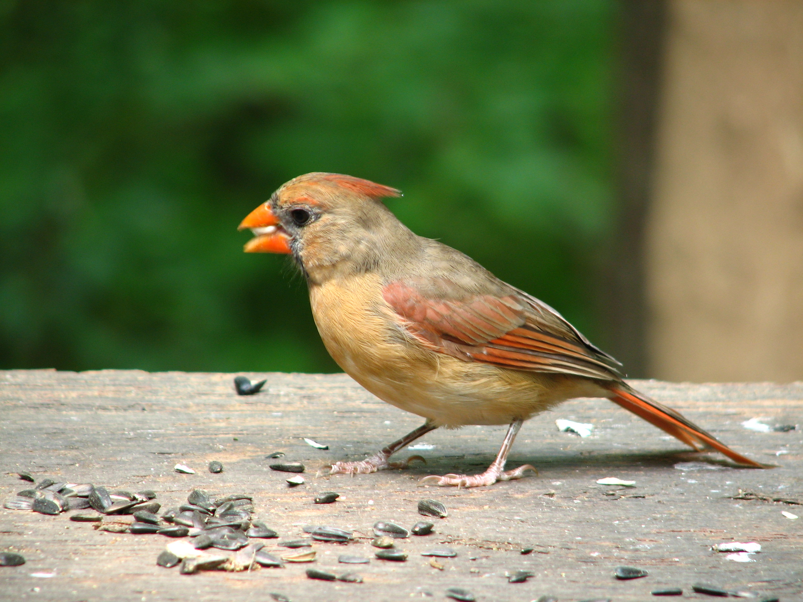 Cardinalis cardinalis, female